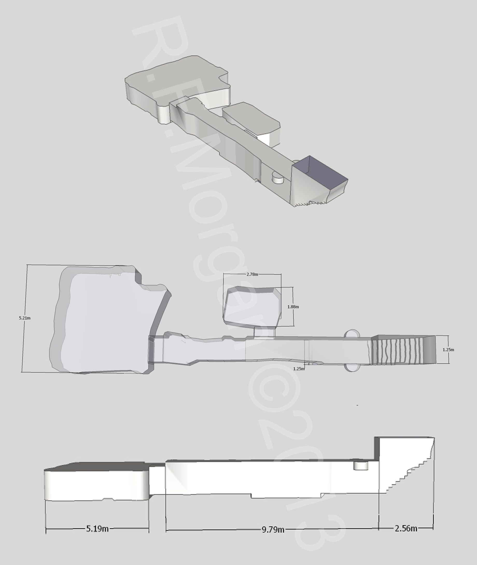 Isometric, plan and elevation images of KV60 taken from a 3d model